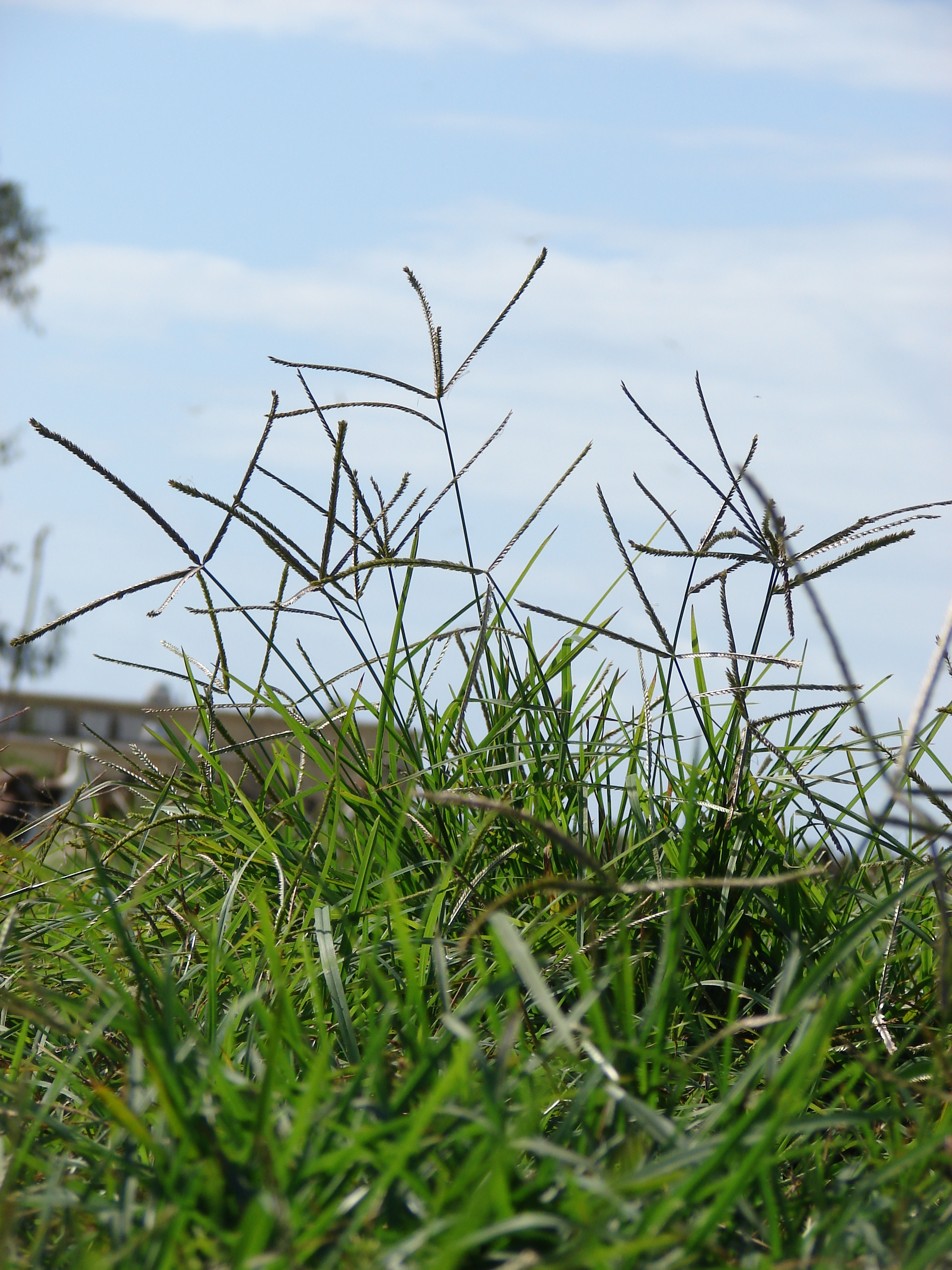 Eleusine indica (seedheads). Location: Midway Atoll, Parade field Sand Island